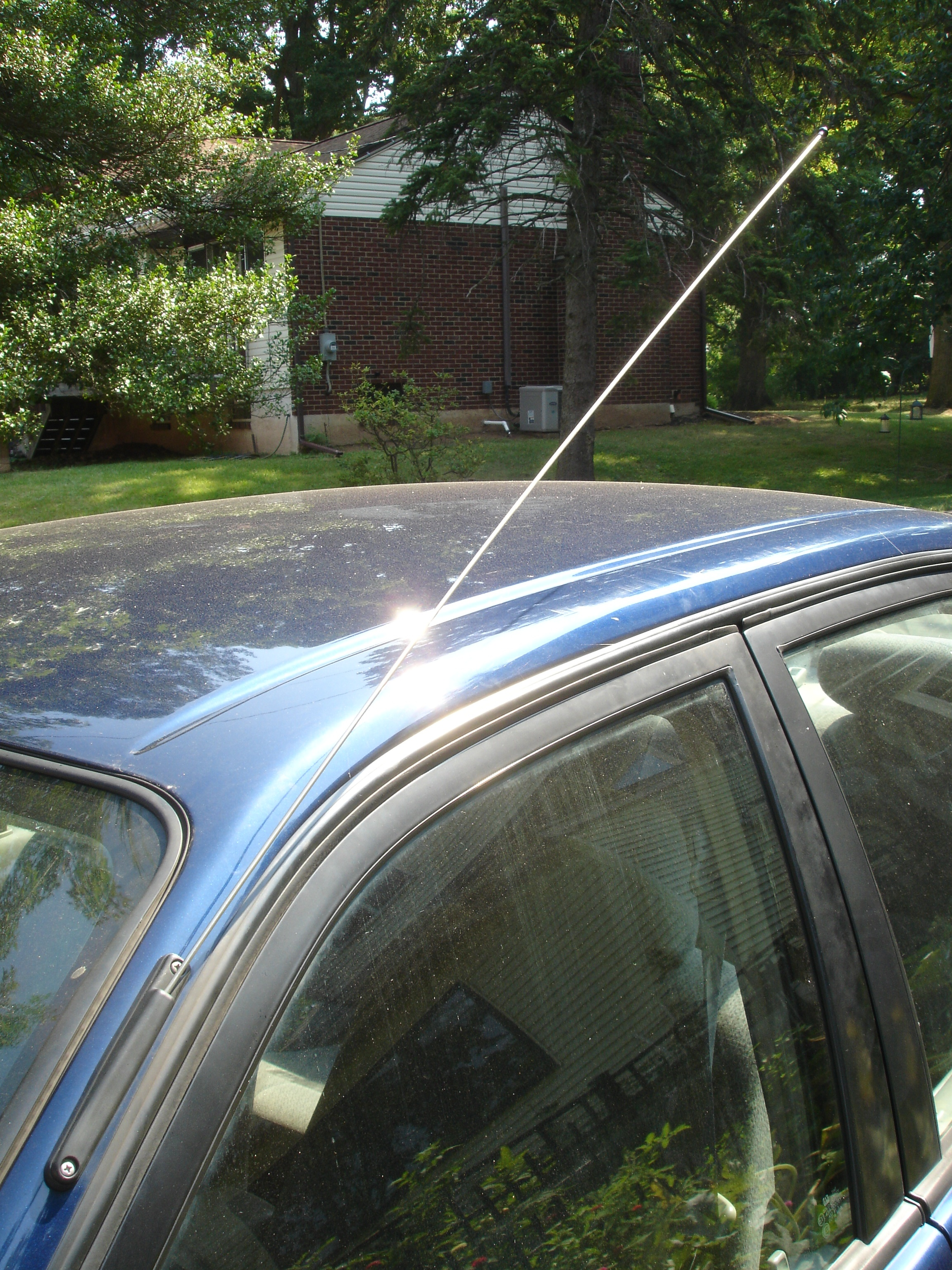 Car radio stock antenna, which has been extended and displayed with the car shown in portrait view orientation for context. The antenna is attached to the car with two Phillips head screws, and it terminates behind the dashboard into the car radio with a Motorola plug.